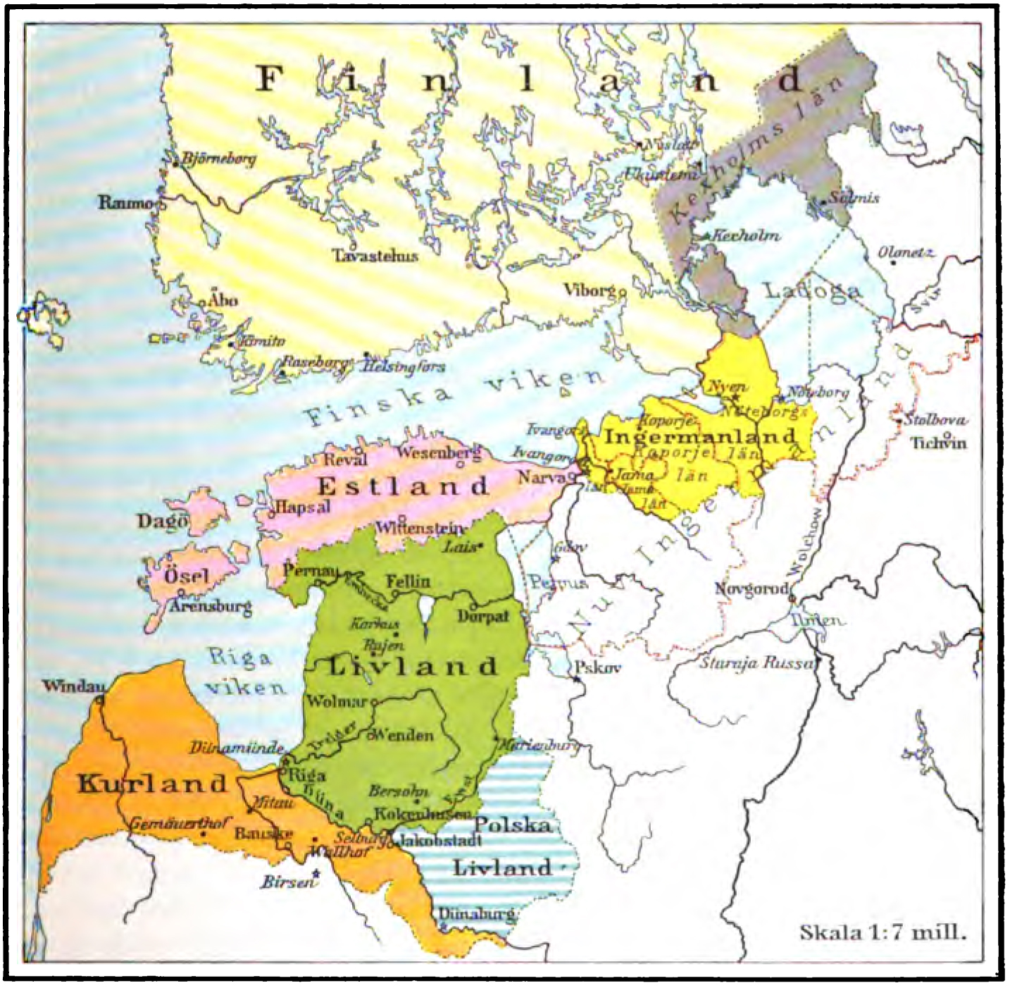 17 cen. Sweden: Finland, Estland, Livland, Ingermanland, Kexholms lan 17 cen Poland: Kurland, Polska Livland